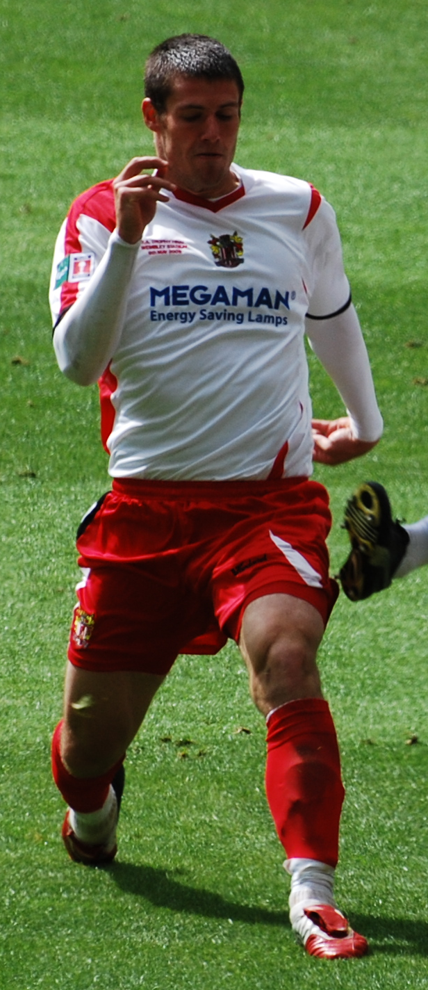 Michael Bostwick. Image cropped from original at flickr.